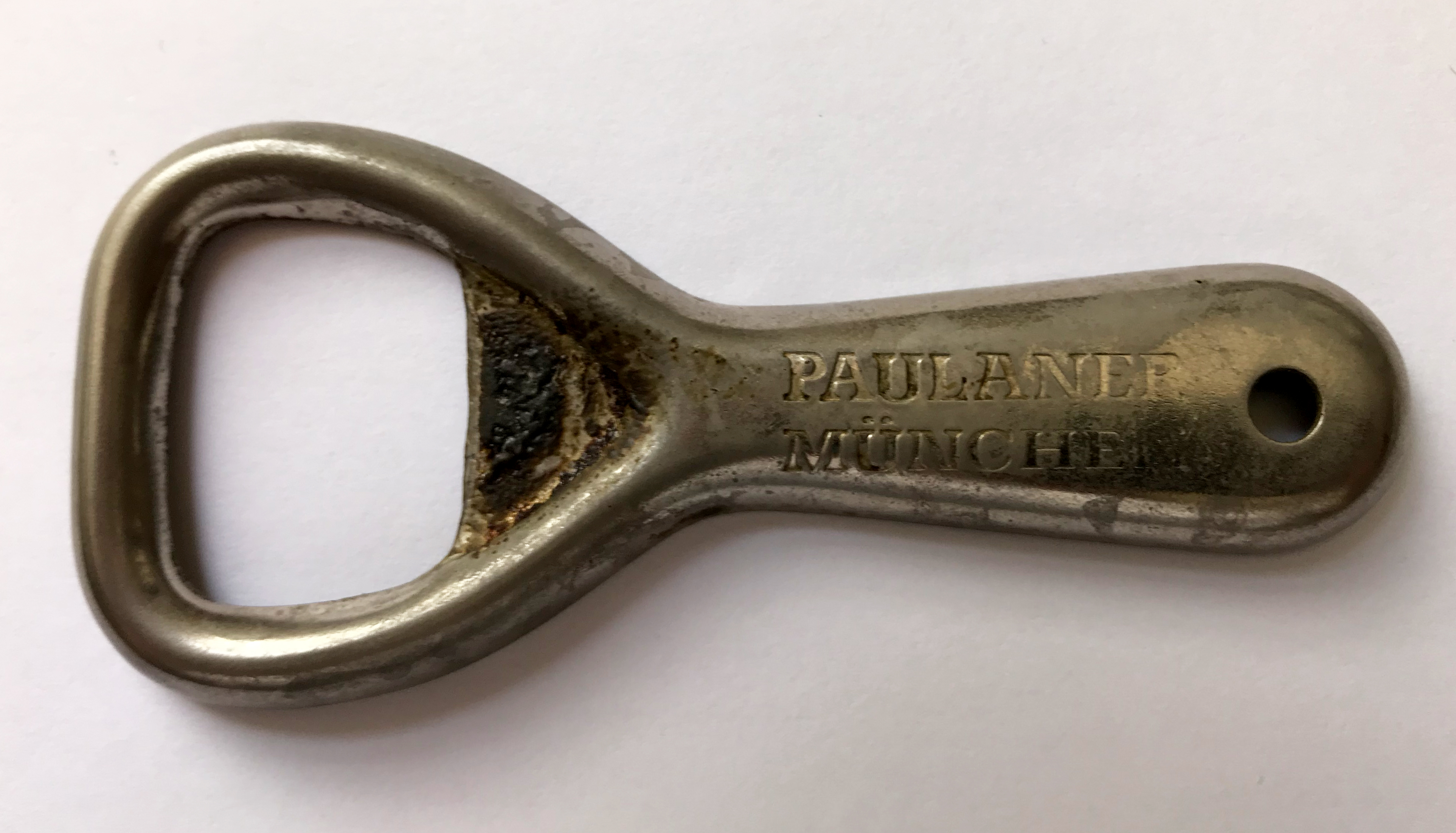 Bottle opener (giveaway) of the Munich Paulaner brewery (circa 1960)